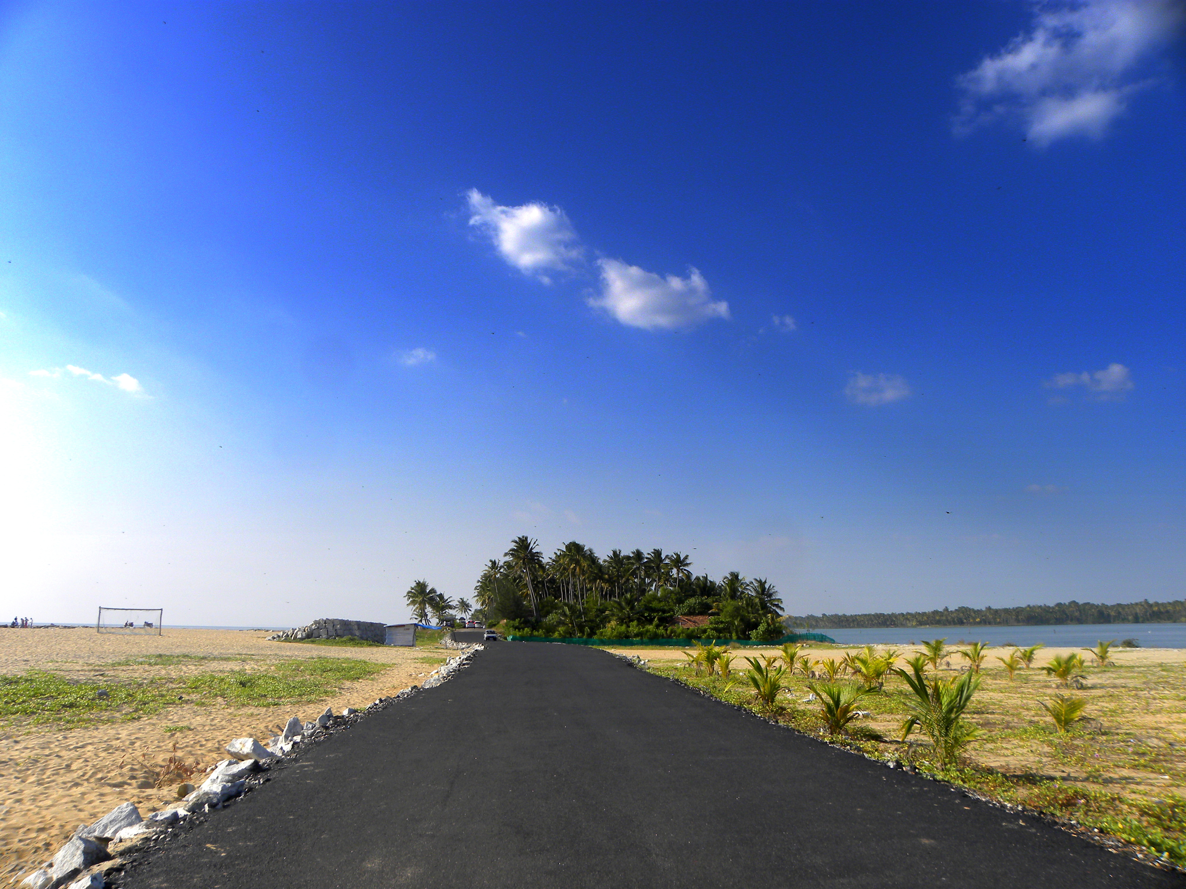 Paravur-Kollam Coastal Road is an important 14.1km long city road connects Paravur town with Kollam city corporation.